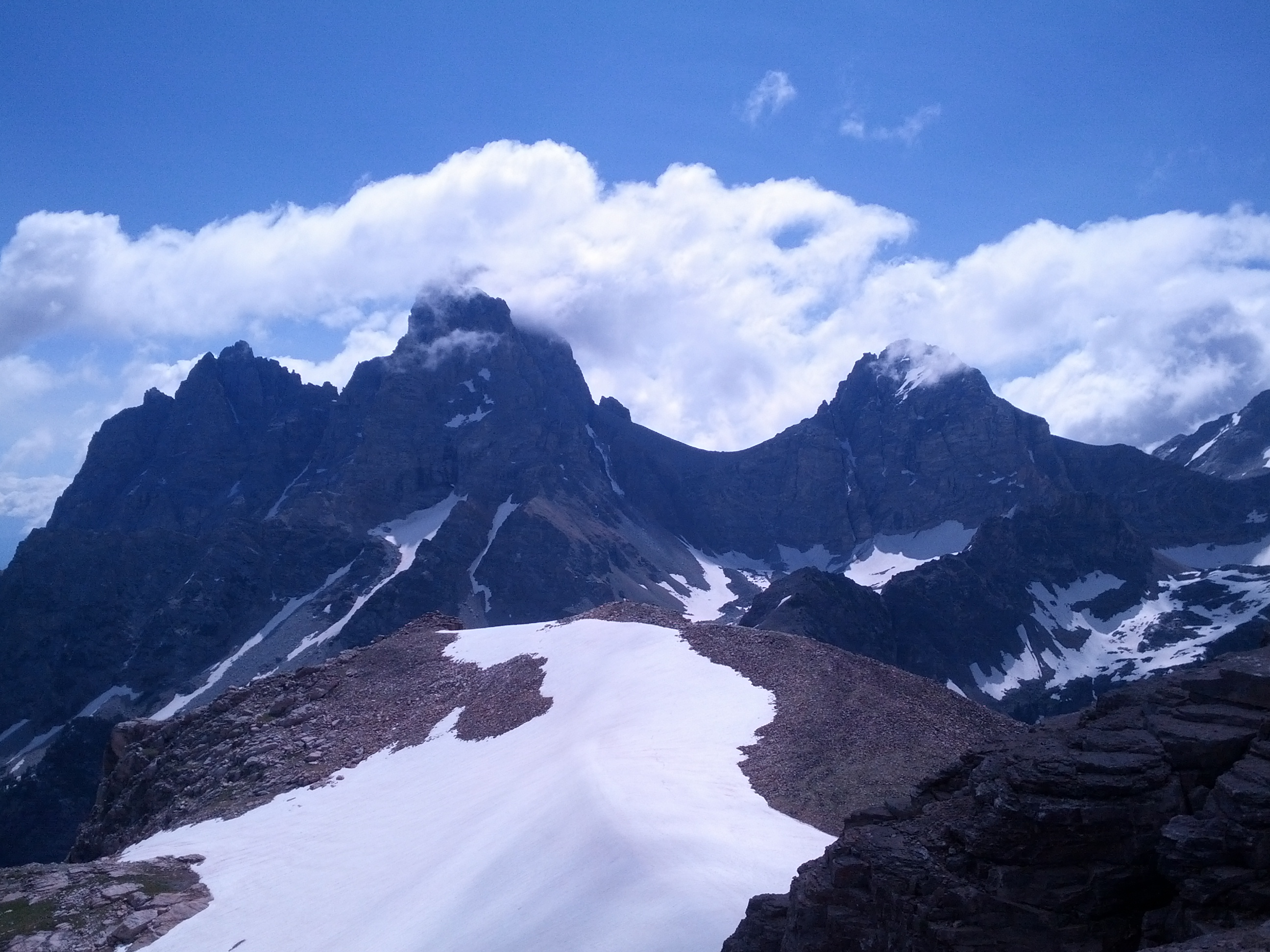 Tetons from Table Rock (horizontal)